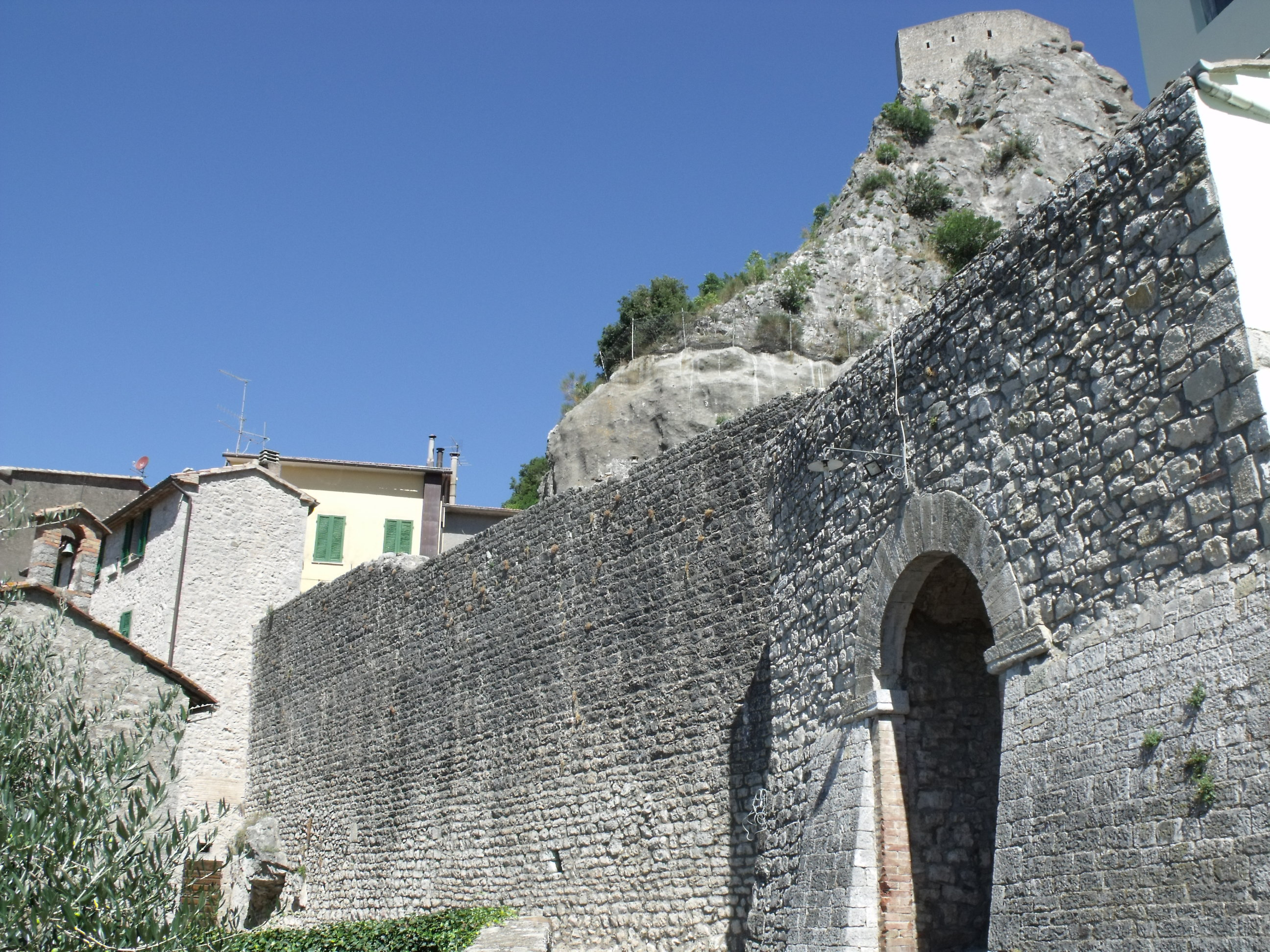 Porta di Maremma and Senese City Wall (1296) of Roccalbegna, Tuscany, Italy